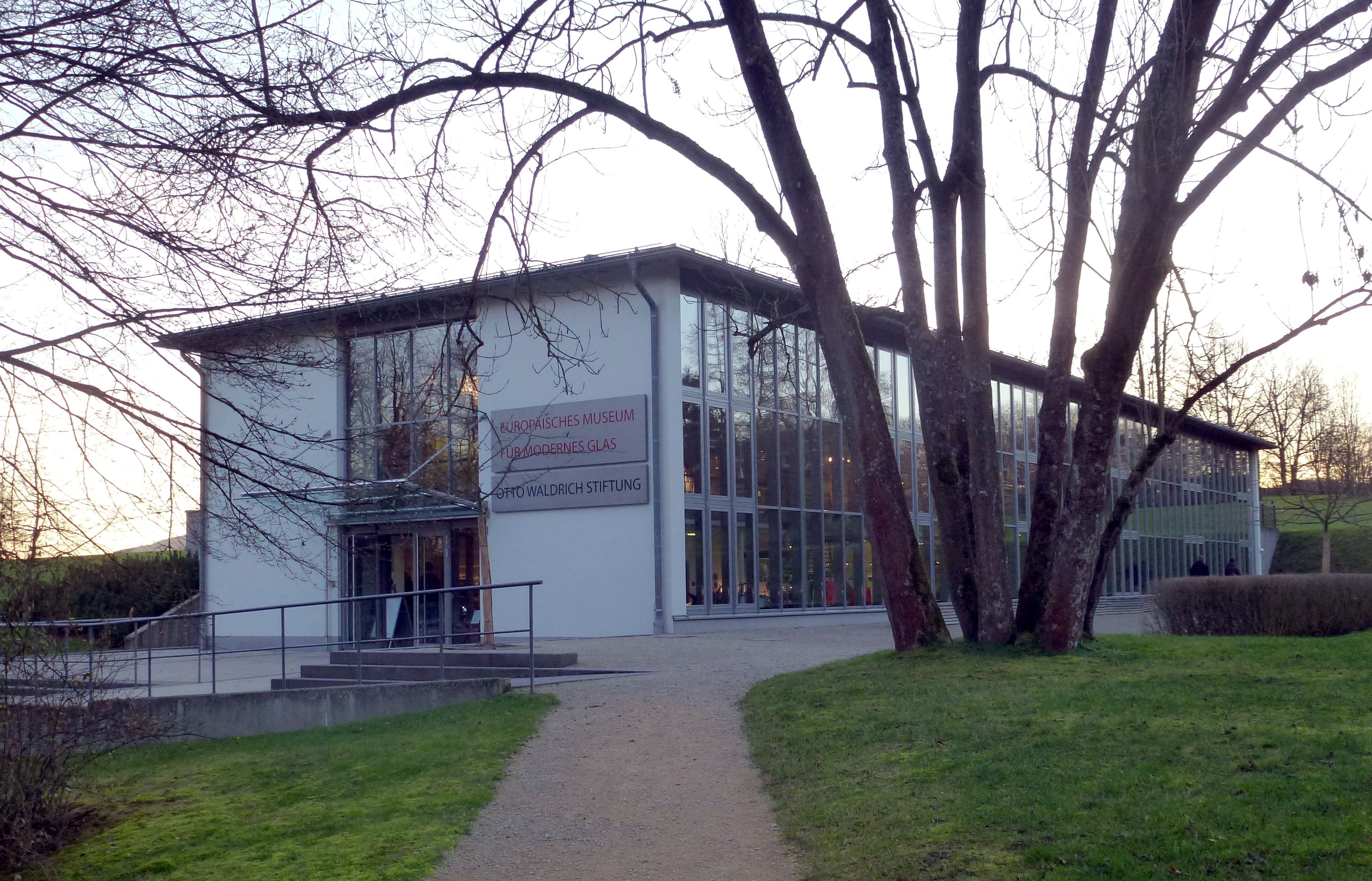 European Museum of Modern Glass - Otto Waldrich Foundation